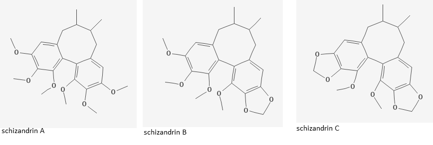 Schizandrin A-C